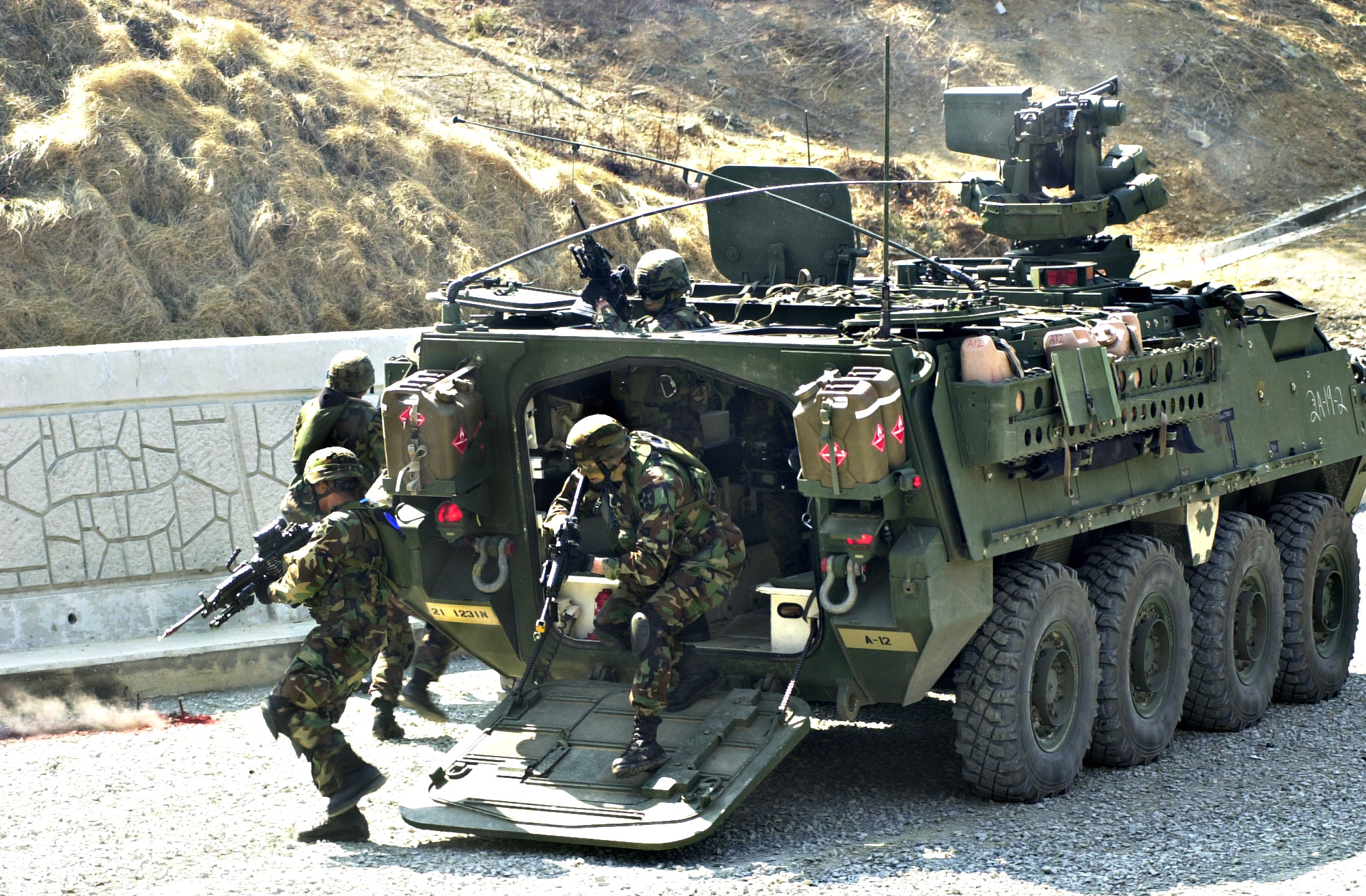 Caption: "US Army's 1-23 Infantry "Alpha Company" Stryker team members deploy from a Stryker Vehicle to provide suppressive fire on the enemy during a simulated convoy attack during a Reception, Staging, Onward movement, and Integration/Foal Eagle exercise (RSO&I/Foal Eagle). RSO&I is a complex multi-phase exercise conducted annually, tailored to train, test, and demonstrate United States and Republic of Korea (ROK) Force projection and deployment capabilities which was recently completed." Original Text from source: Daegu, Republic of Korea (Mar. 20, 2005) – U.S. Army Soldiers, assigned to 123 Infantry, Alpha Company, Stryker Unit, deploy out of the back of a Stryker infantry carrier vehicle to provide suppressive fire on the enemy during a simulated convoy attack during Reception, Staging, Onward movement, and Integration/Foal Eagle exercises (RSO&I/Foal Eagle). RSO&I is a complex multi-phase exercise conducted annually, tailored to train, test, and demonstrate United States and Republic of Korea force projection and deployment capabilities. Foal Eagle exercise runs simultaneously and trains in all aspects of Combined Forces Command's mission.